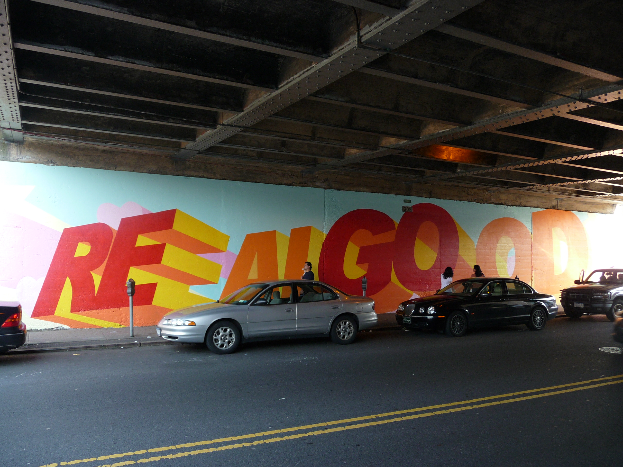 Picture of "REal GOod" mural on 63rd Drive at LIRR overpass. Mural was designed by Eve Biddle and Joshua Frankel, two artists affiliated with NYCares.